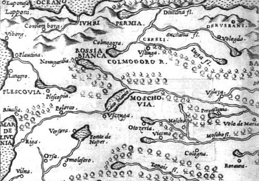 Fragment of the map by G. Ruscelli from Ptolomeo, C.; G. Ruscelli, G. Moleto (1561) La Geografia, Venice, p. p.774